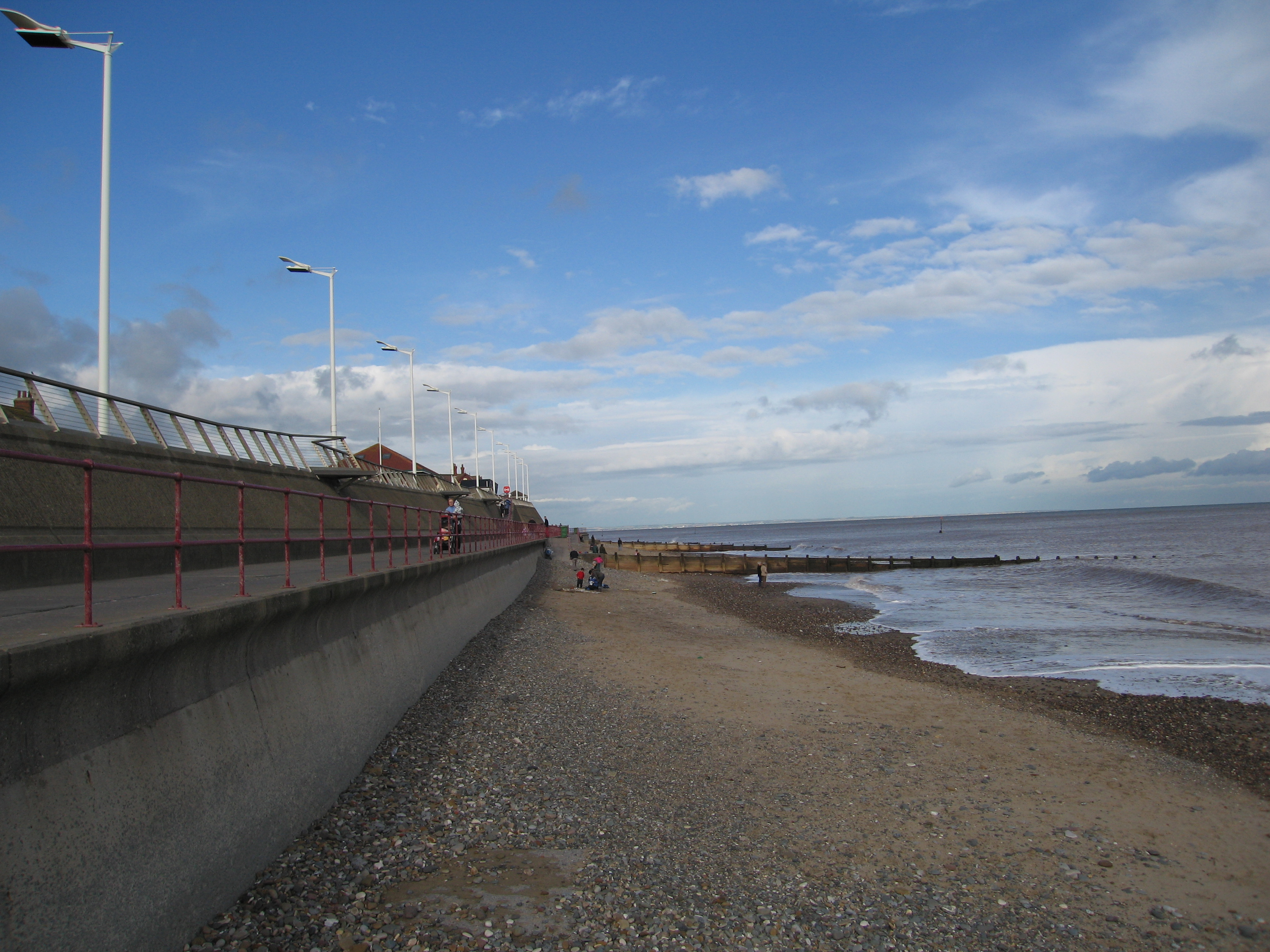 Hornsea, East Riding of Yorkshire, England.